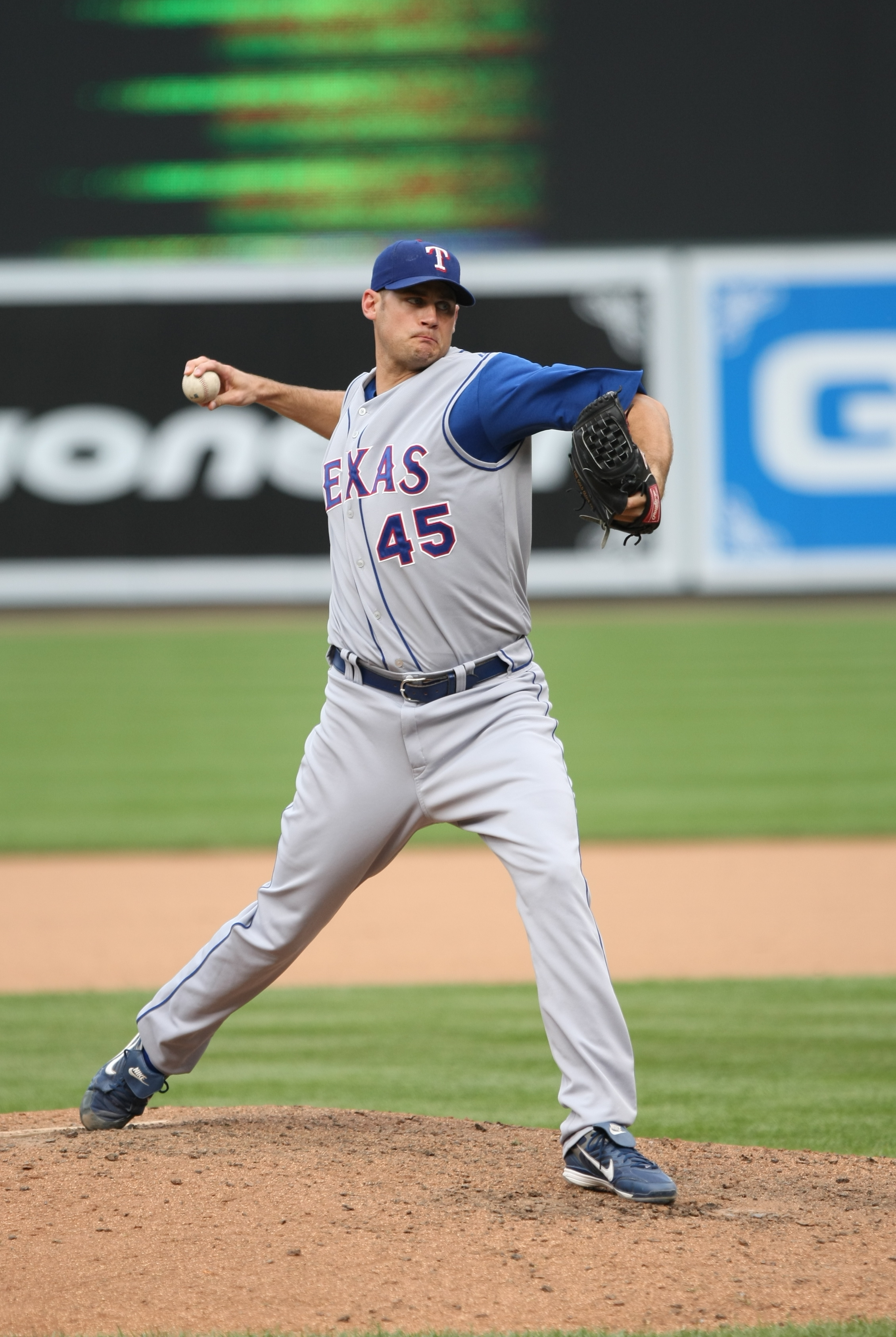 Jamey Wright